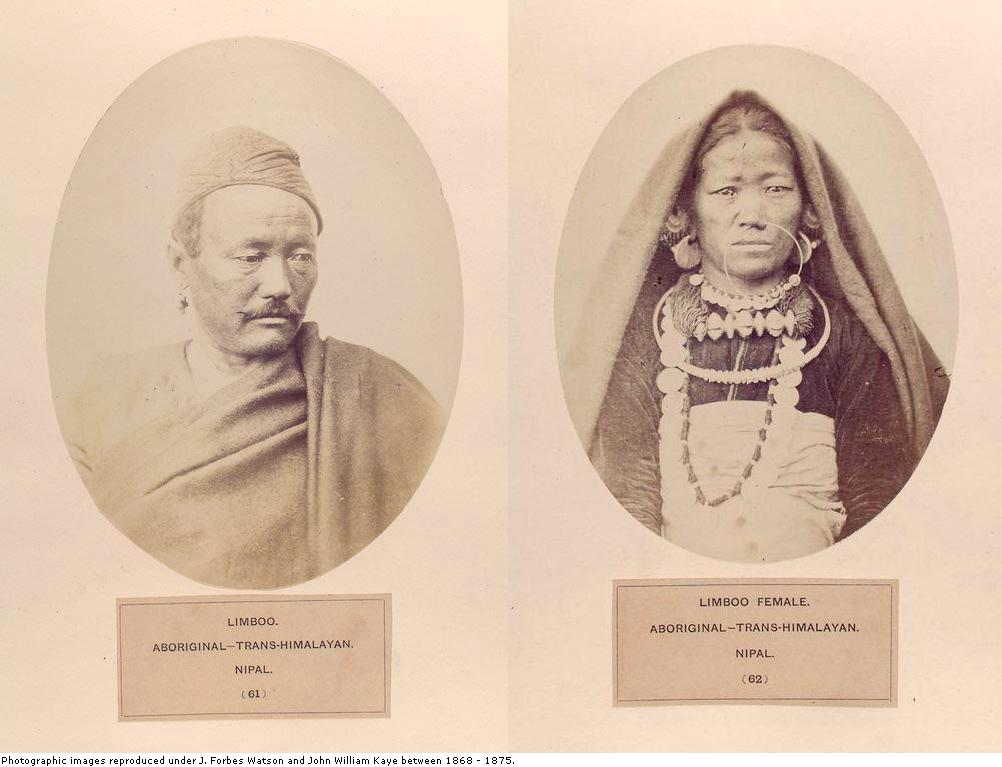 Limbu male and female portrature. Trans-Himalayan Tibetan tribes. Late 1800s.